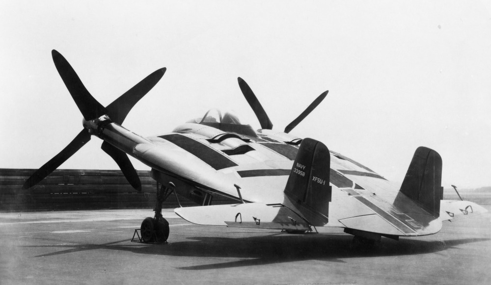 PictionID:41545714 - Title:Ray Wagner Collection Image - Catalog:16_000445 Vought XF5U-1 33958 mfg - Filename:16_000445 Vought XF5U-1 33958 mfg.tif - - - Image from the Ray Wagner Collection. Ray Wagner was Archivist at the San Diego Air and Space Museum for several years and is an author of several books on aviation --- ---Please Tag these images so that the information can be permanently stored with the digital file.---Repository: San Diego Air and Space Museum